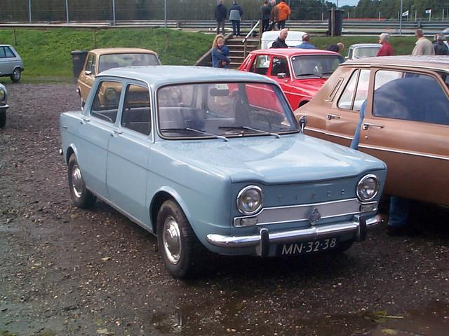 Picture of a 1963 Simca 1000, taken at the annual Matra-Simca-Talbot meeting in 2002